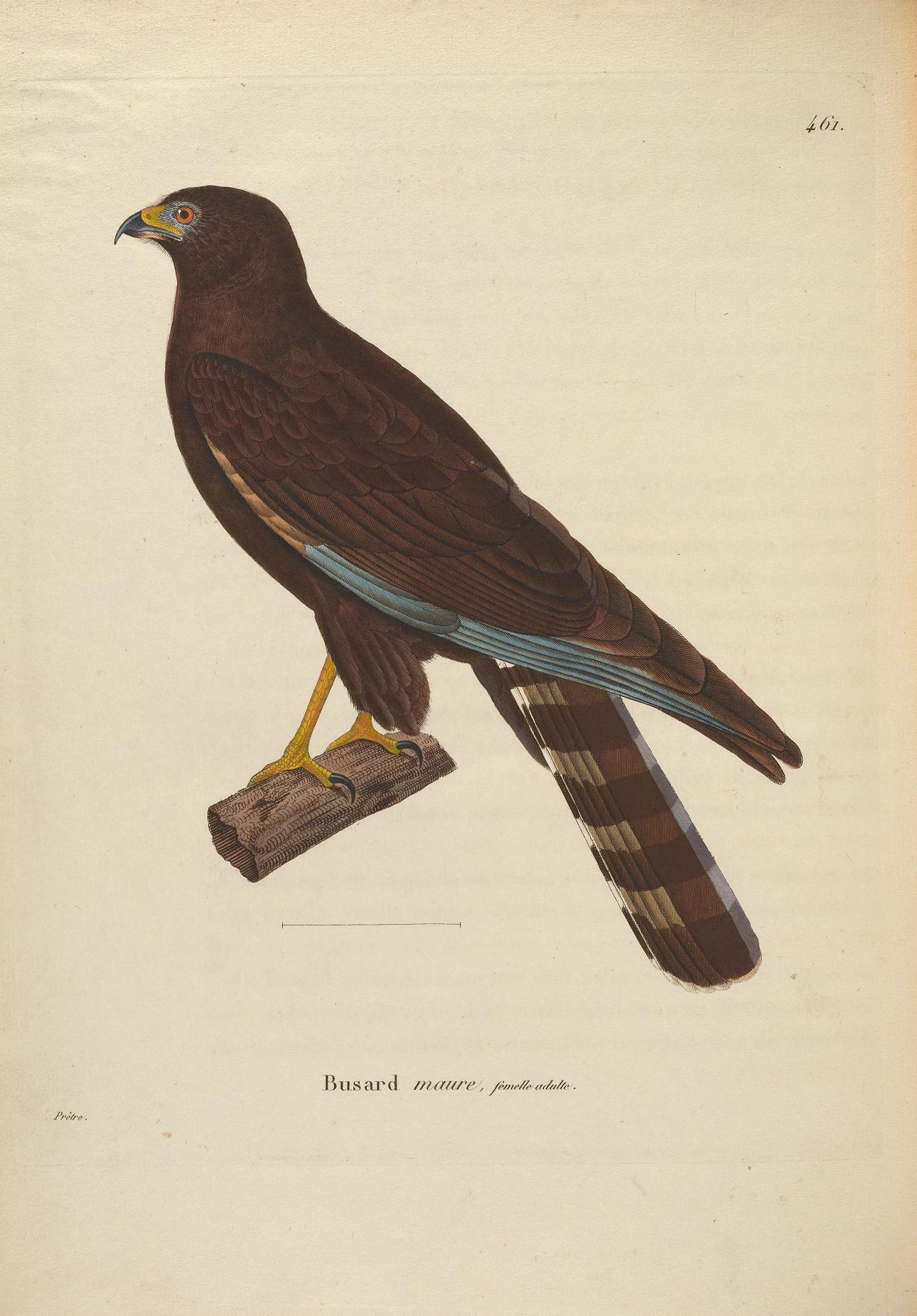 Black Harrier (Circus maurus), colour plate 461 from Nouveau recueil de planches coloriées d'oiseaux.